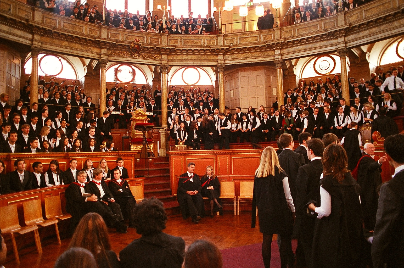 Students entering the Sheldonian theatre for their matriculation ceremony at the University of Oxford.